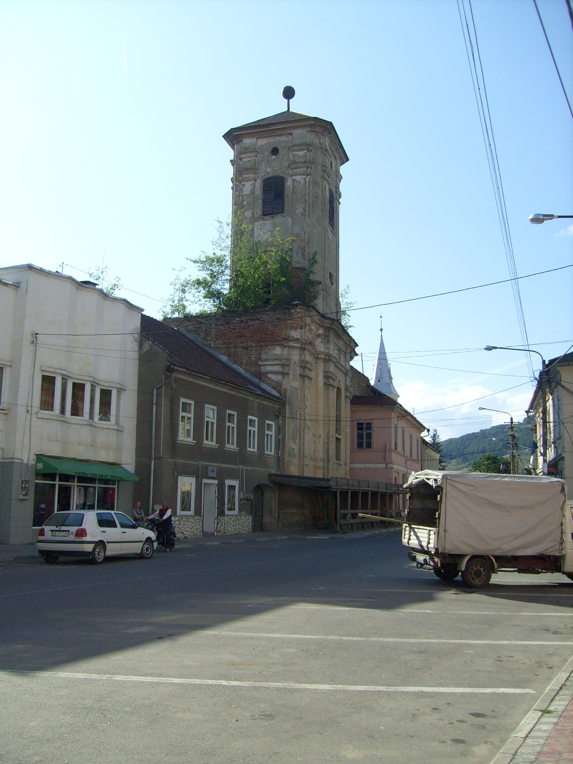 Unitarian and Calvinist Church in Abrud.